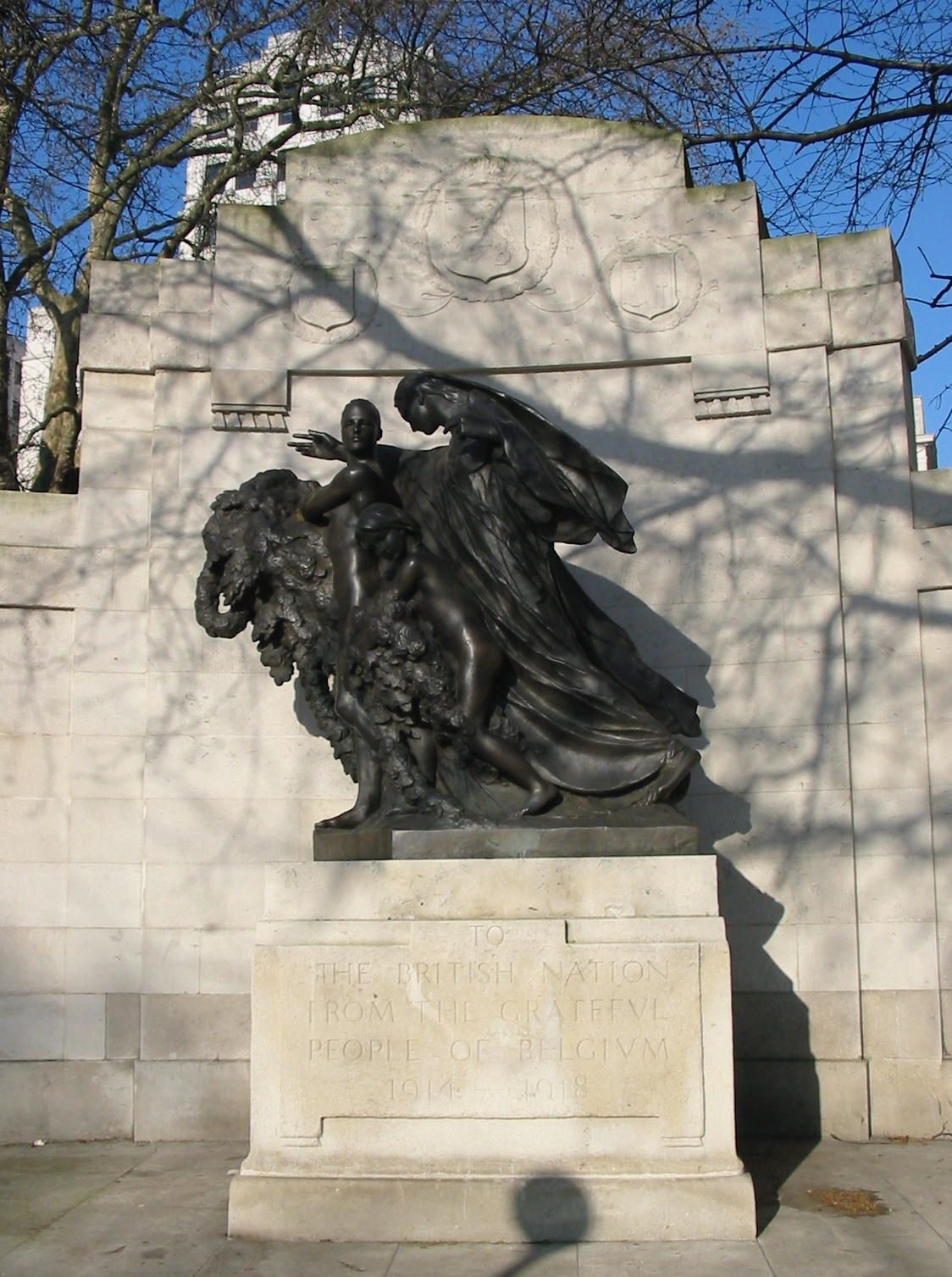 London